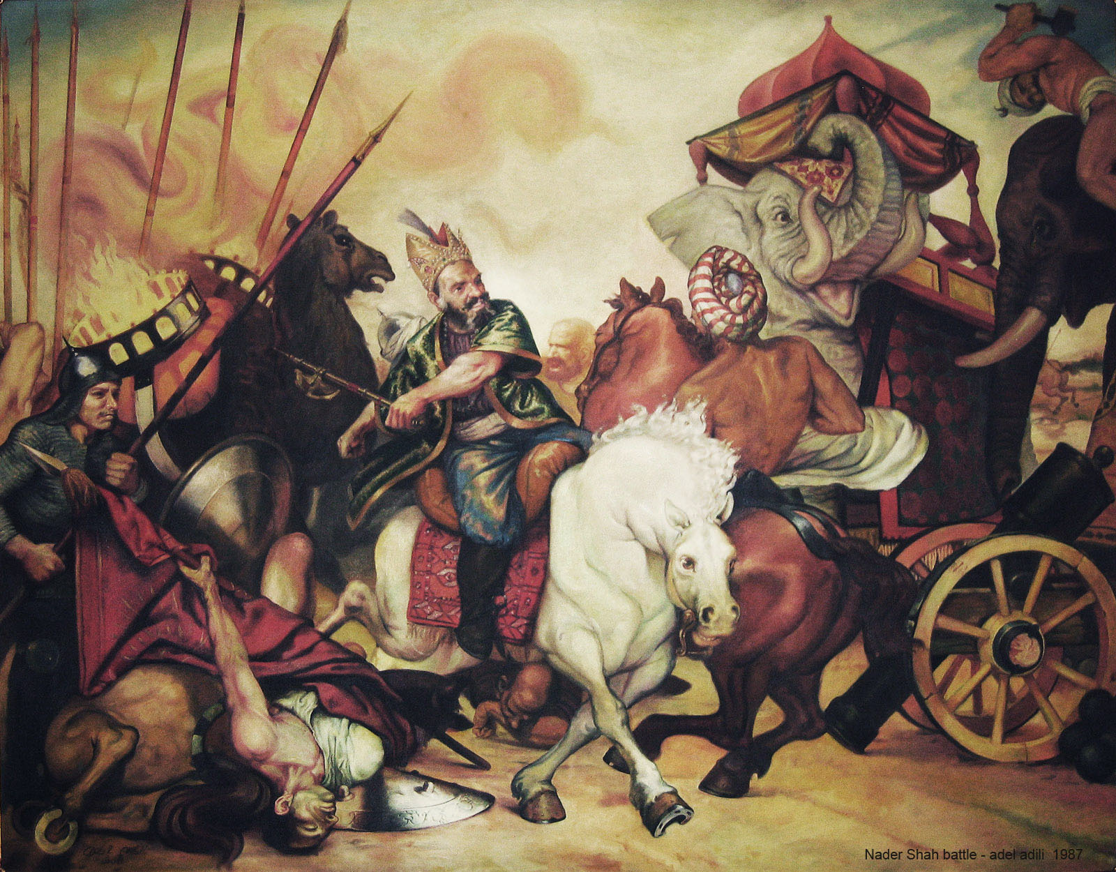 Afsharid Empire - Nader Shah - Battle of Karnal